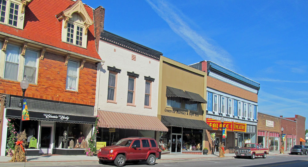 The 100 block of North Main Street in Greenville, Kentucky. It is part of the North Main Street Historic District on the National Register of Historic Places